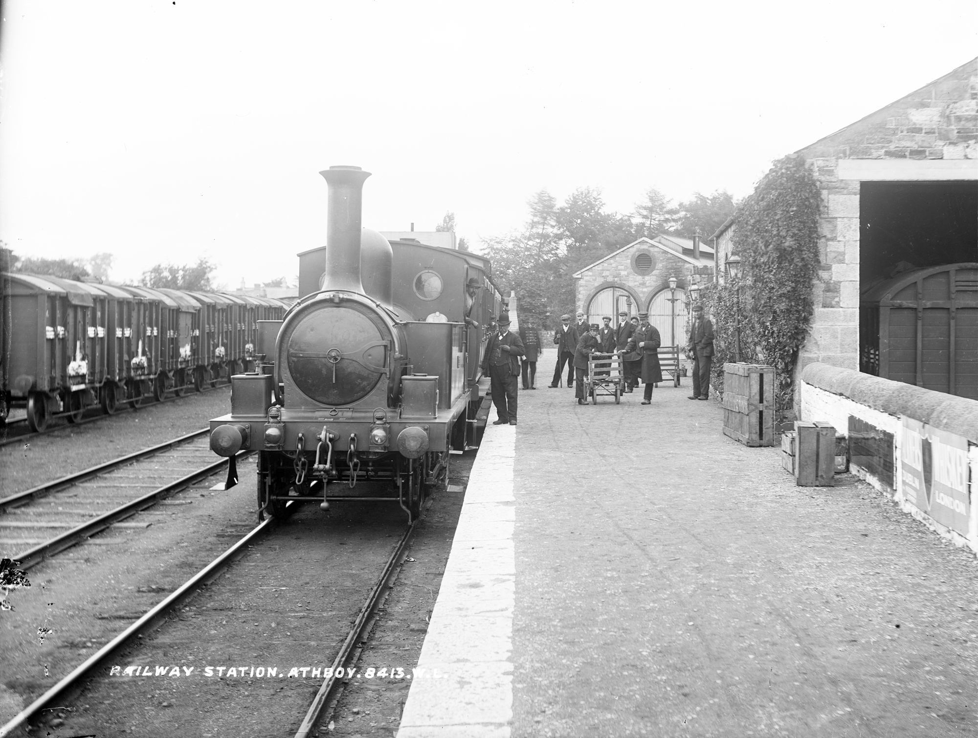 Our regular roving railway reporter Flying Snail asked to see this one - he's nearing the end of his college work (a photographic project on the former railways in Co. Meath). Love the chap checking his watch! Date: Circa 1900? NLI Ref.: L_ROY_08413